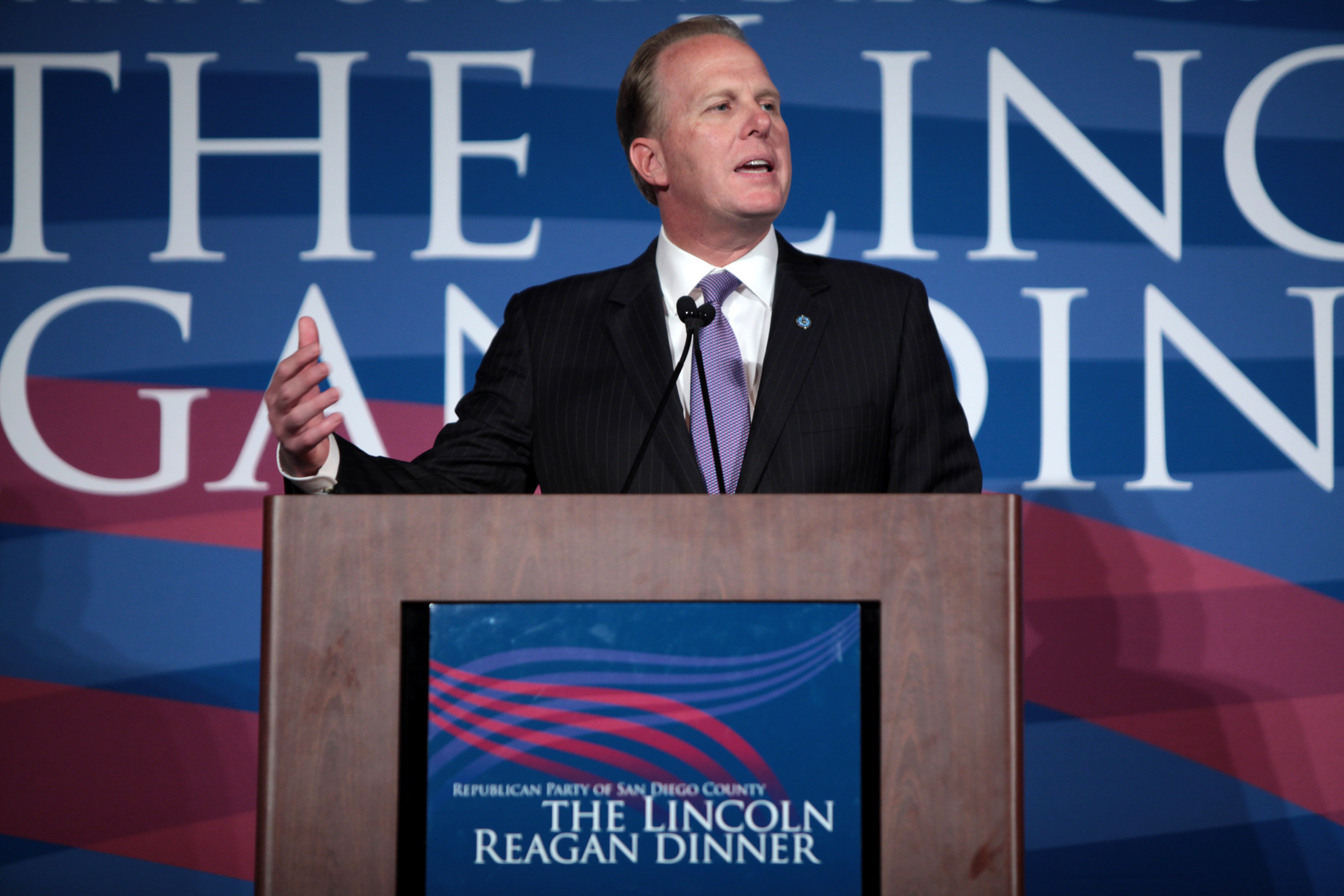 Mayor Kevin Faulconer speaking at an event in San Diego, California.